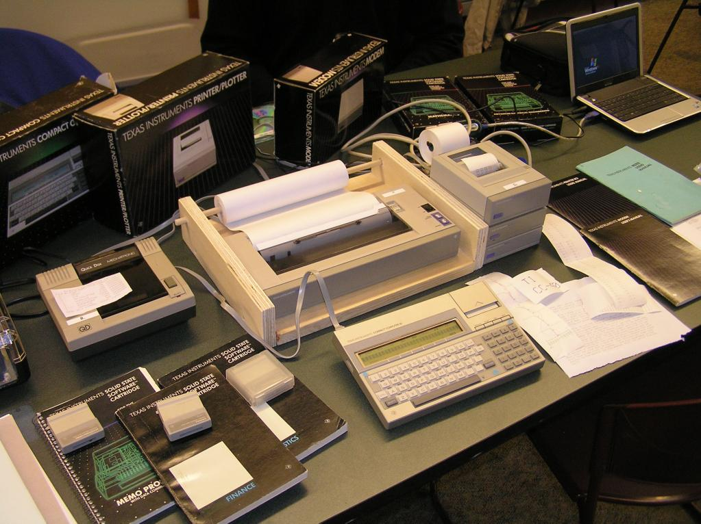 Daisy Chained Hexbus peripherals